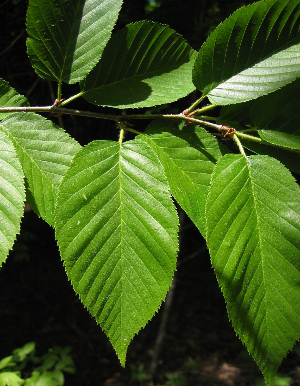 Yellow birch foliage via